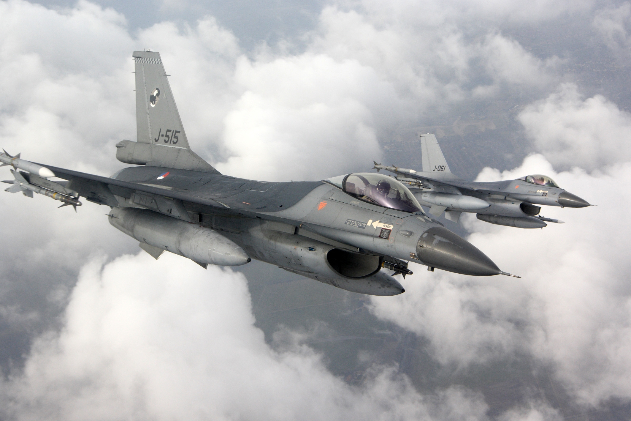 Two F-16s of the Royal Netherlands Airforce